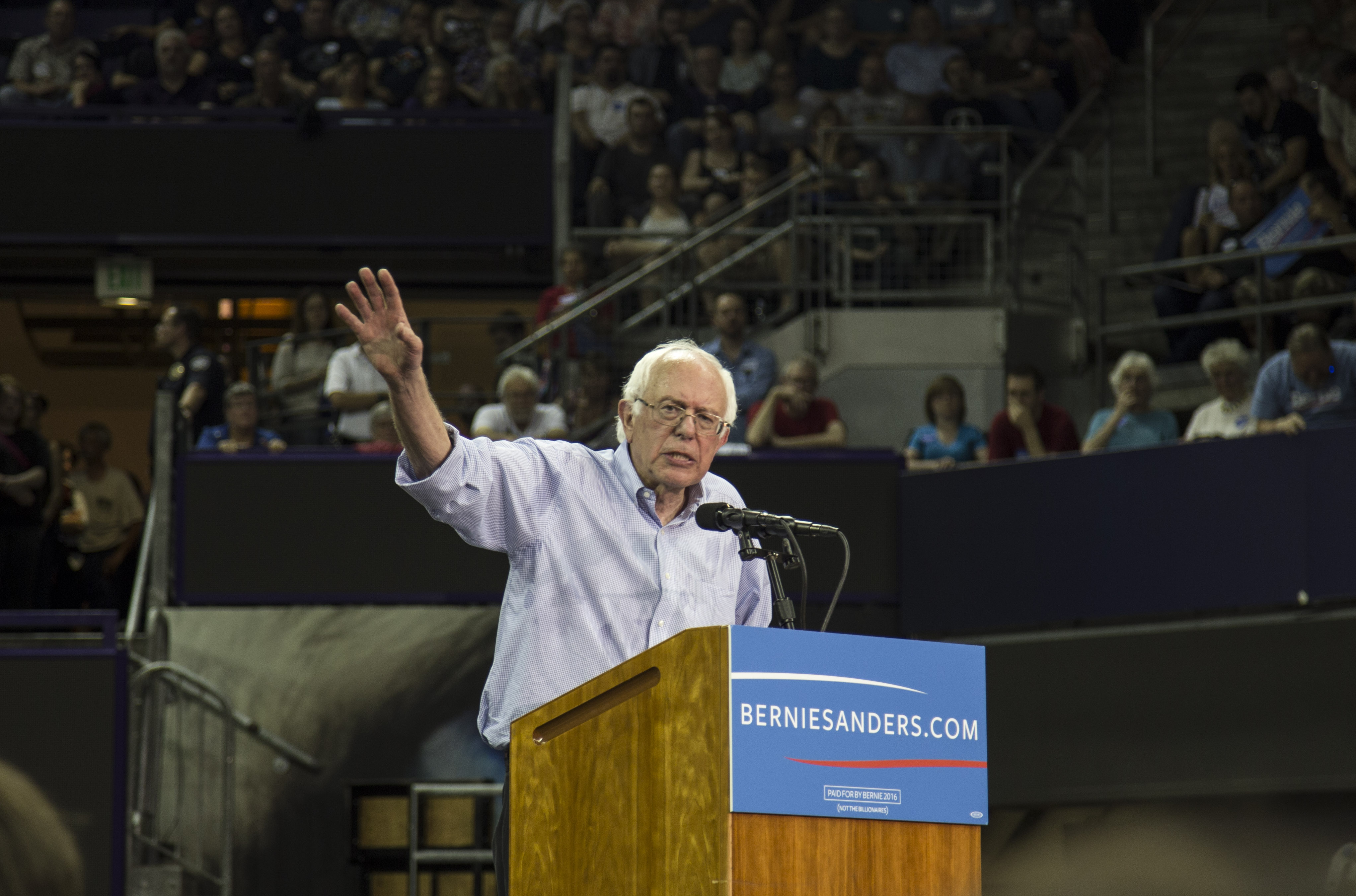 Bernie Sanders speaking at Hec Edmundson Pavilion in Seattle on August 8, 2015